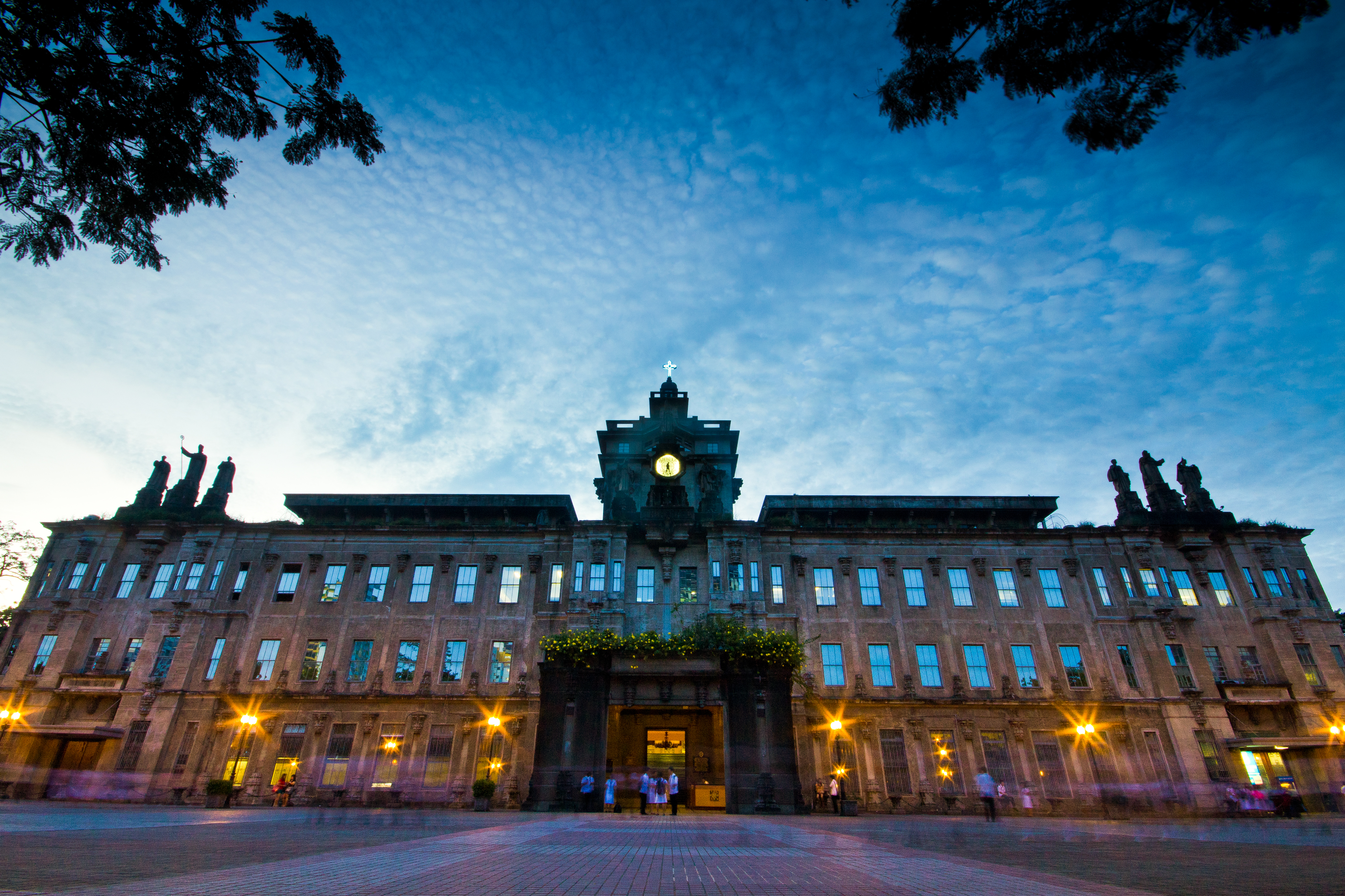 The Main Building of the University of Santo Tomas, during the 400th year celebrations of the Pontifical and Royal University of the Philippines. Filipino: Ang Pangunahing Gusali ng Pamantasan ng Santo Tomas, noong pagdiriwang ng ika-400 taon ng Pontipikal na Pamantasan ng Pilipinas.